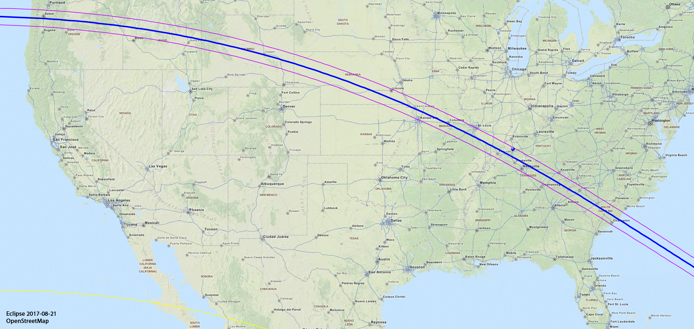 Map of the solar eclipse 2017 USA, created with Eclipse 2017 Android App, Geodata from OpenStreetMap Zoom 6